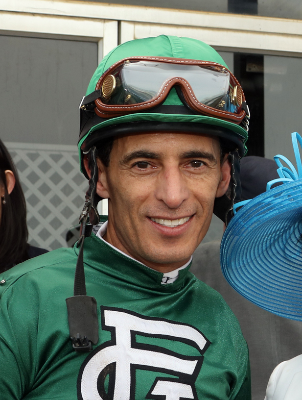 John Velazquez at Pimlico racetrack, May 2016